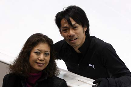 Daisuke Takahashi and his coach Utako Nagamitsu at the 2007 Grand-Prix Final.